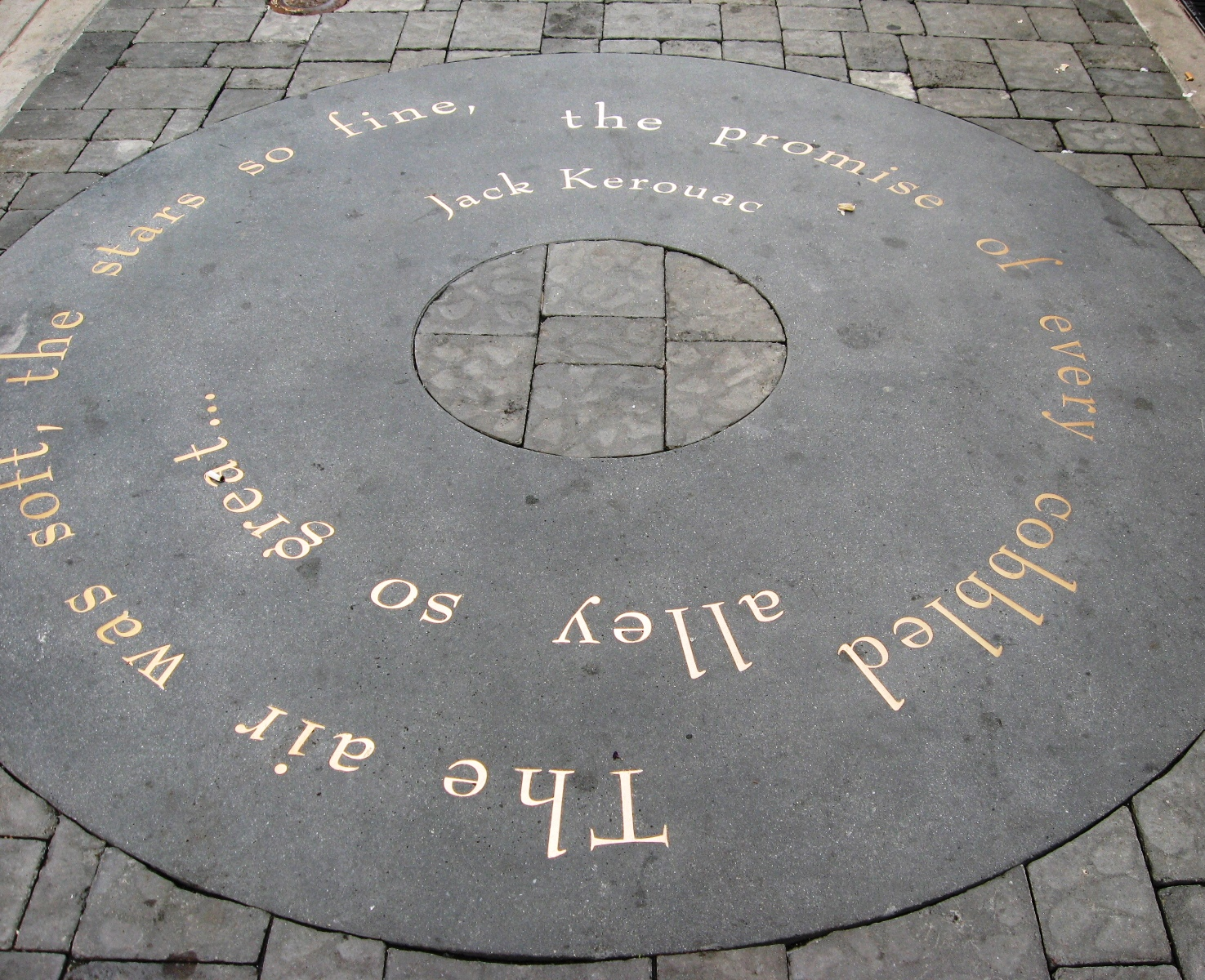 On the Road excerpt in the center of San Francisco Chinatown's Jack Kerouac Alley.